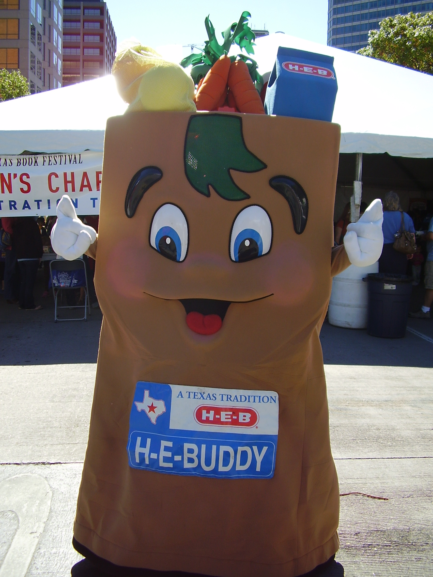 The H-E-Buddy, the mascot of H-E-B, at the Texas Book Festival in 2009